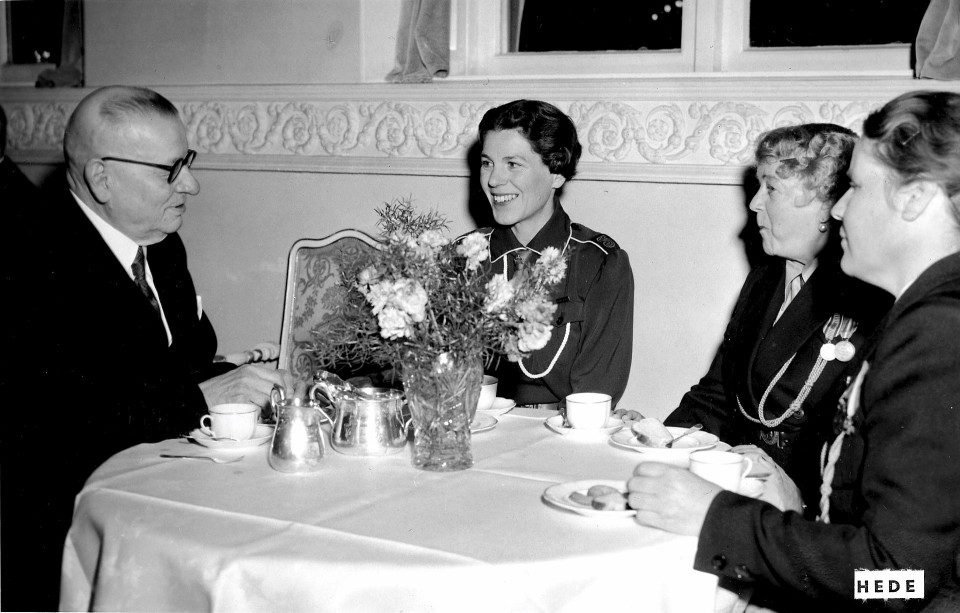 Swedish countess Estelle Bernadotte of Wisborg and Finnish President Juho Kusti Paasikivi. Helsinki 1949.